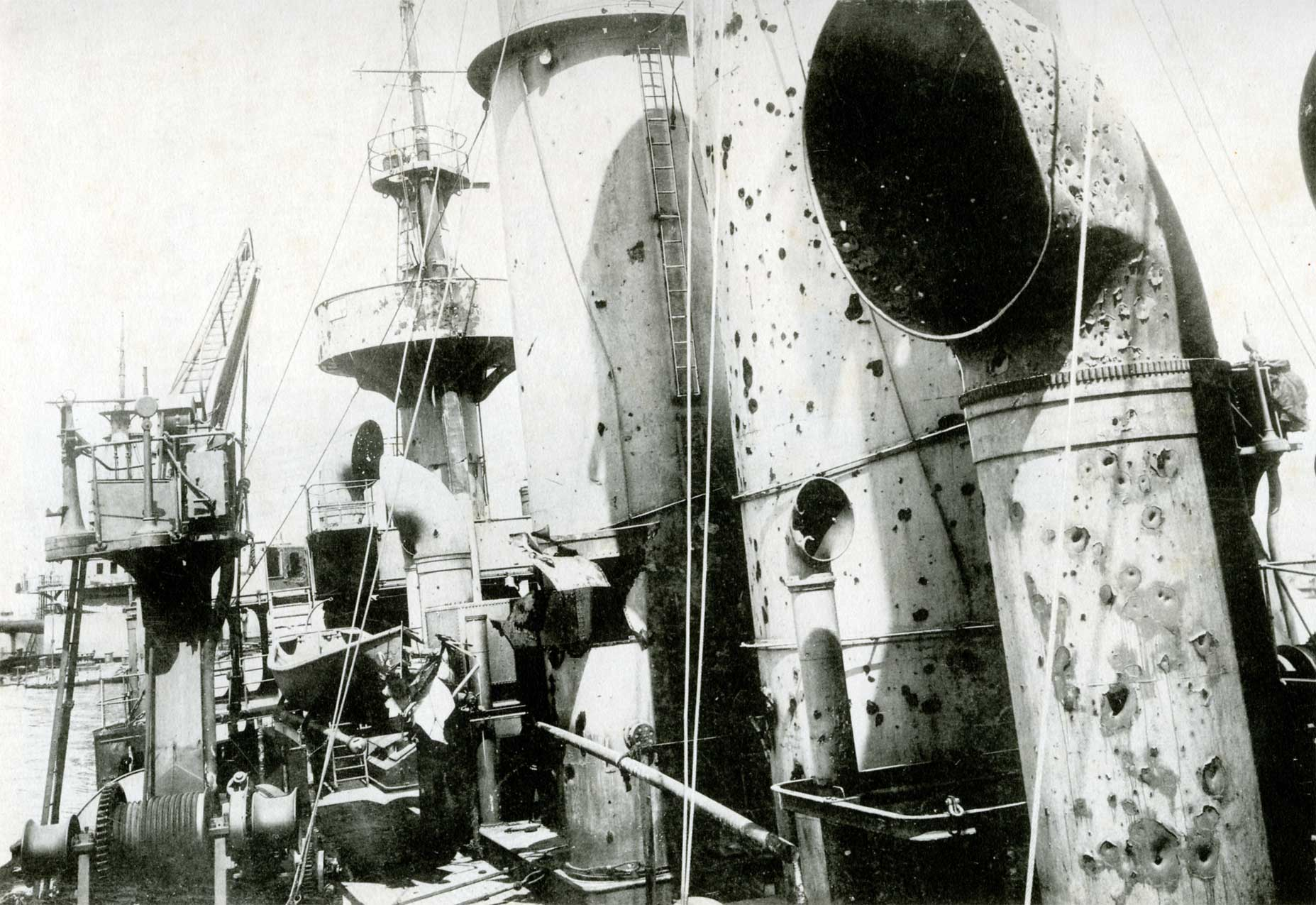 Damages of Funnel Drafts and Ventilation Pipes in the Battleship Retvizan